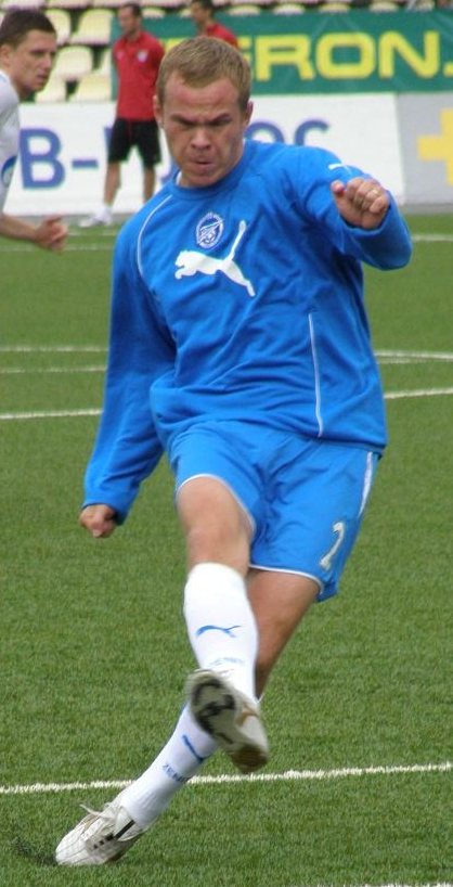 Alexandr Anyukov warming up for FC Zenit St. Petersburg